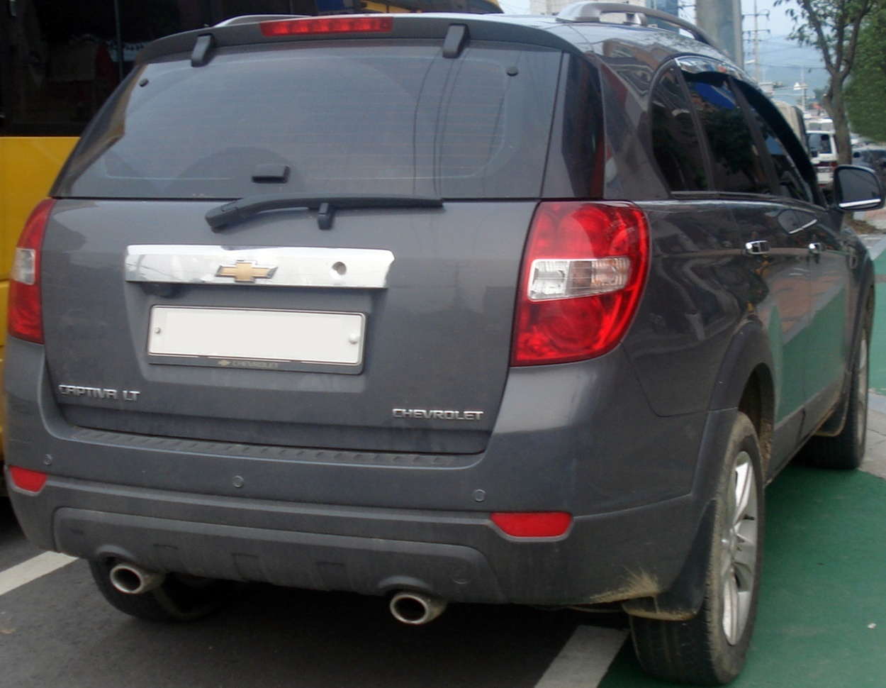 Chevrolet Captiva